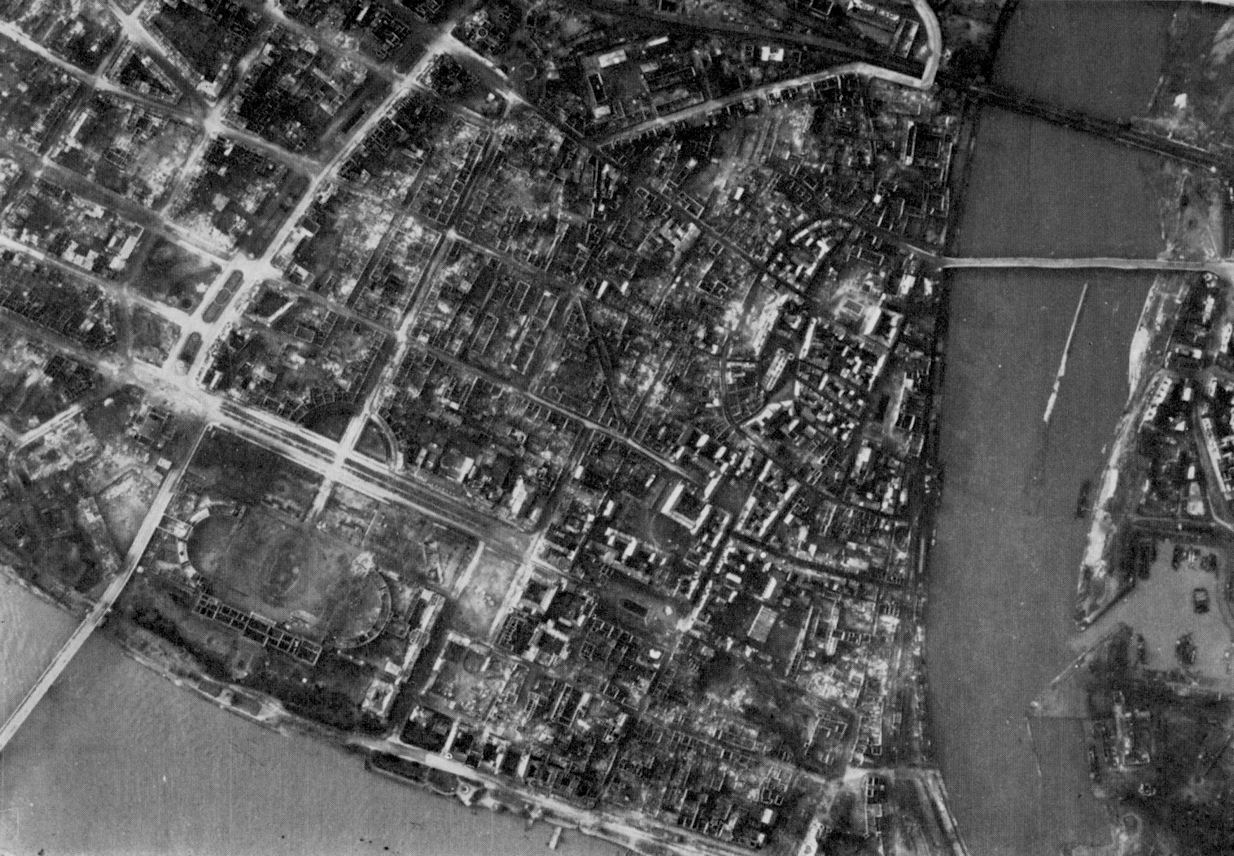 British air photo after the bombing of Koblenz on November 6th 1944